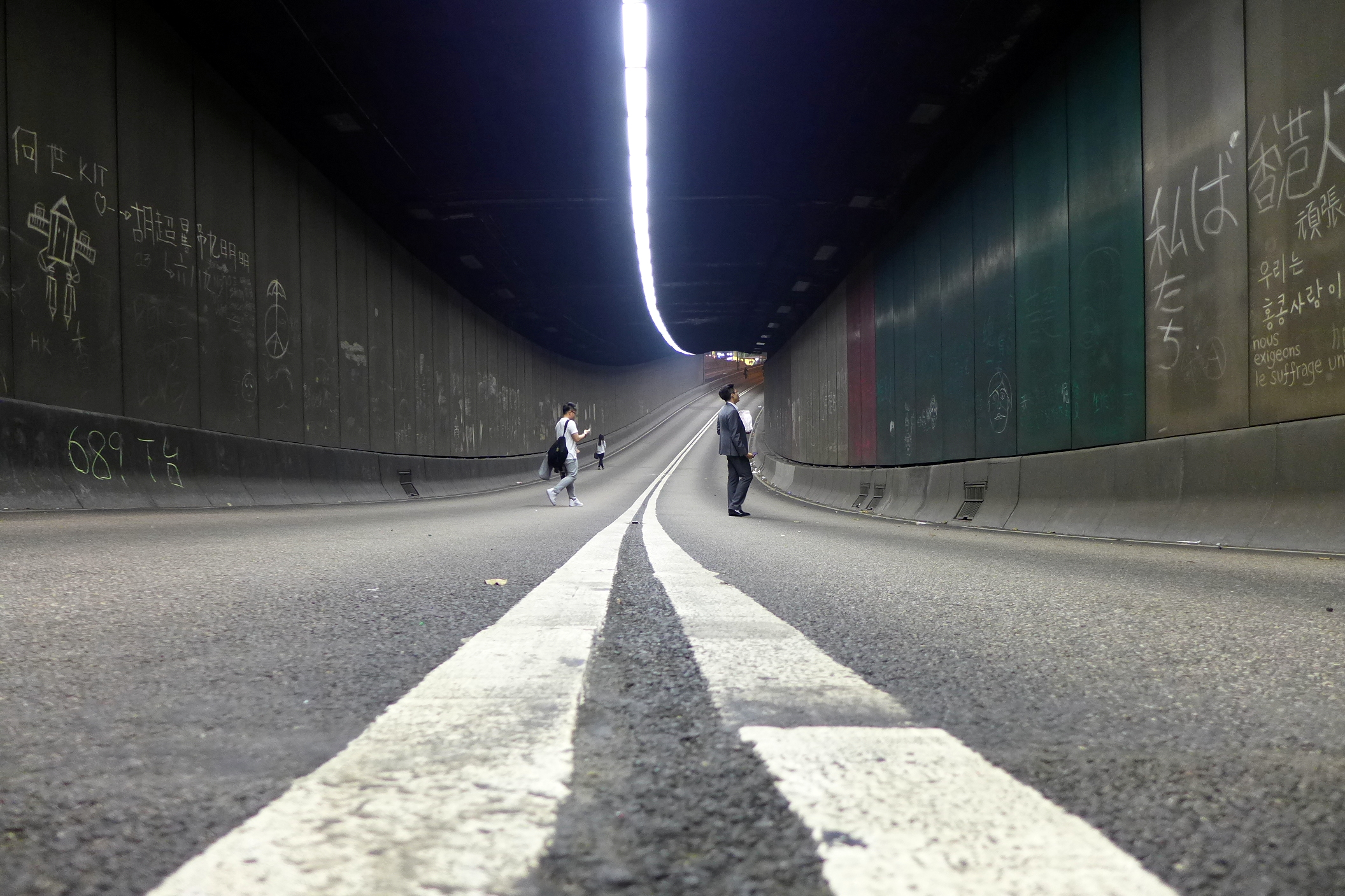 Connaught Road Central during Umbrella Movement